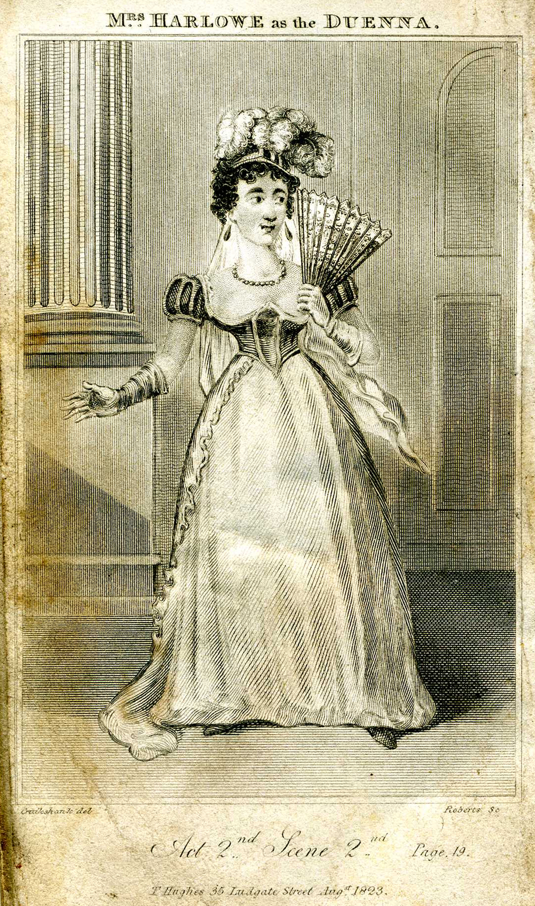 This is a scan of the frontispiece of an 1823 printing of the work, showing Mrs Harlowe in the role of The Duenna in Sheridan's play of that name. According to a dramatis personae attached, Mrs Harlowe was appearing at Covent Garden in that role in c.1823.